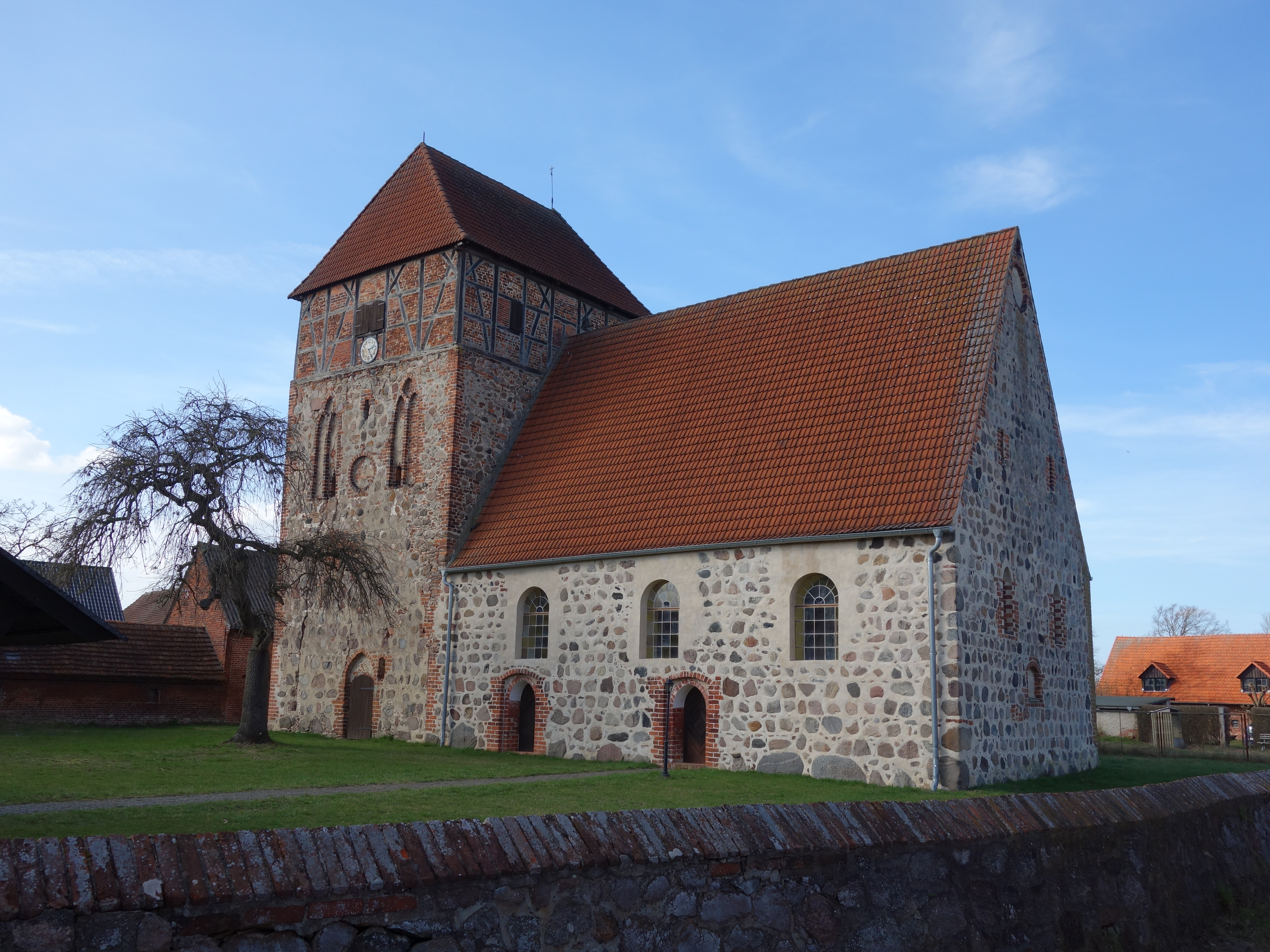 South-south-eastern view of church in Vehlin, Gumtow municipality, Prignitz district, Brandenburg state, Germany